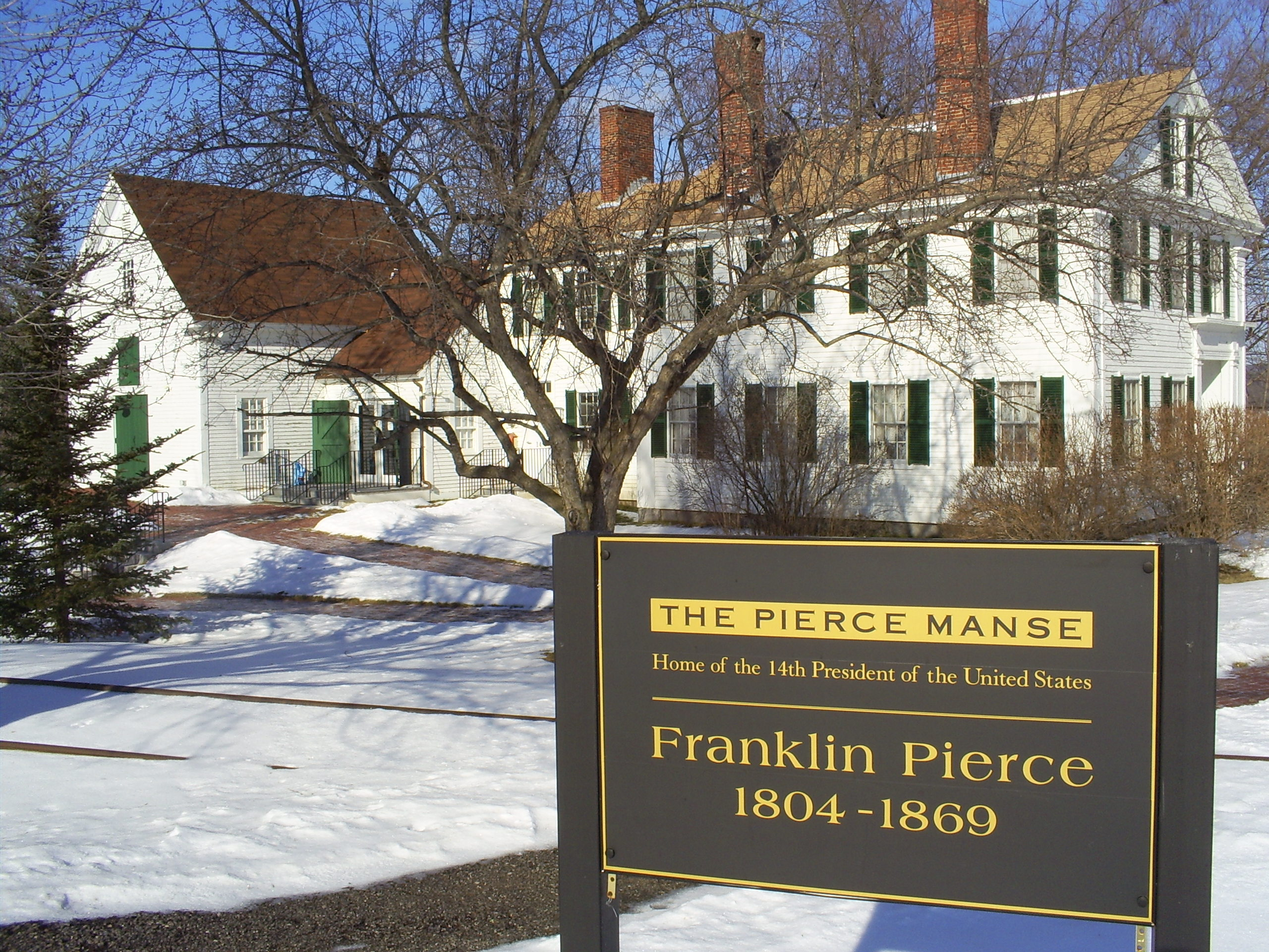 Photo by Craig Michaud.This is in Concord, New Hampshire